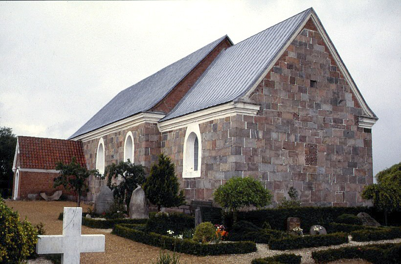 Dallerup church in Silkeborg Kommune, Denmark.